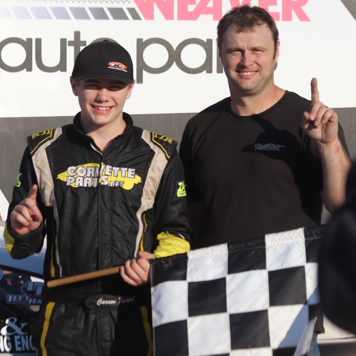 15 year old Carson Kvapil became the youngest TUNDRA series winner at the 2018 race at Dells Raceway Park. He is posing beside his father Travis Kvapil.